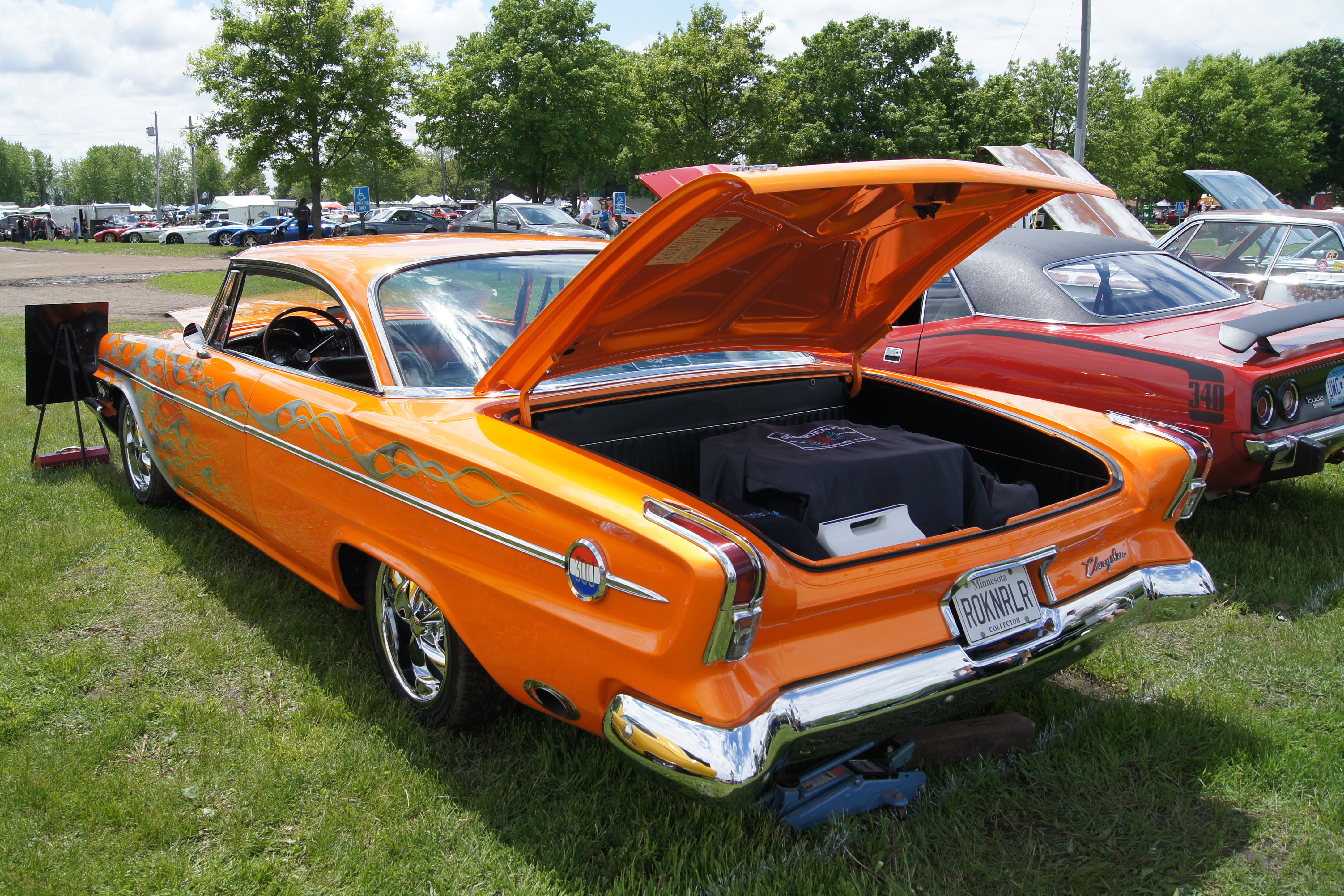 62 Chrysler 300 Sport